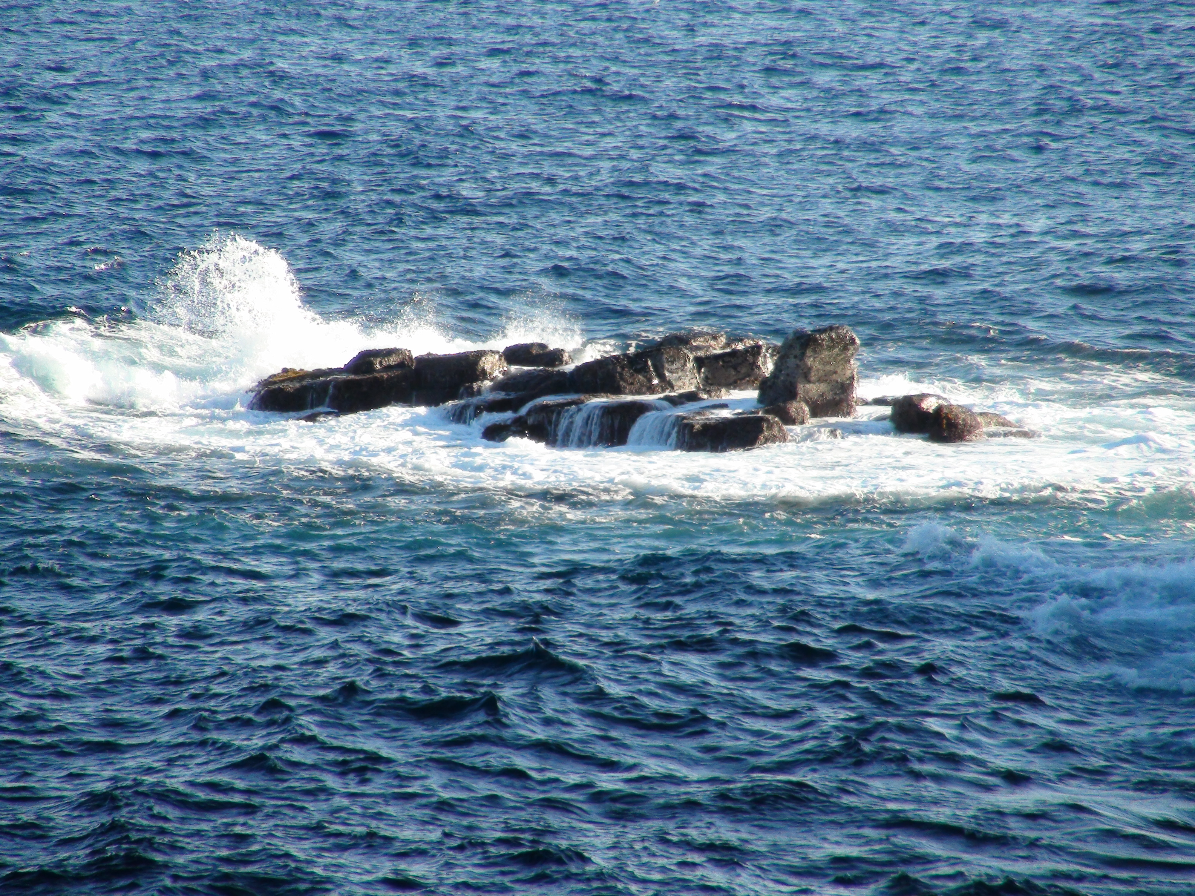 Manaita-iwa rock.Ito city